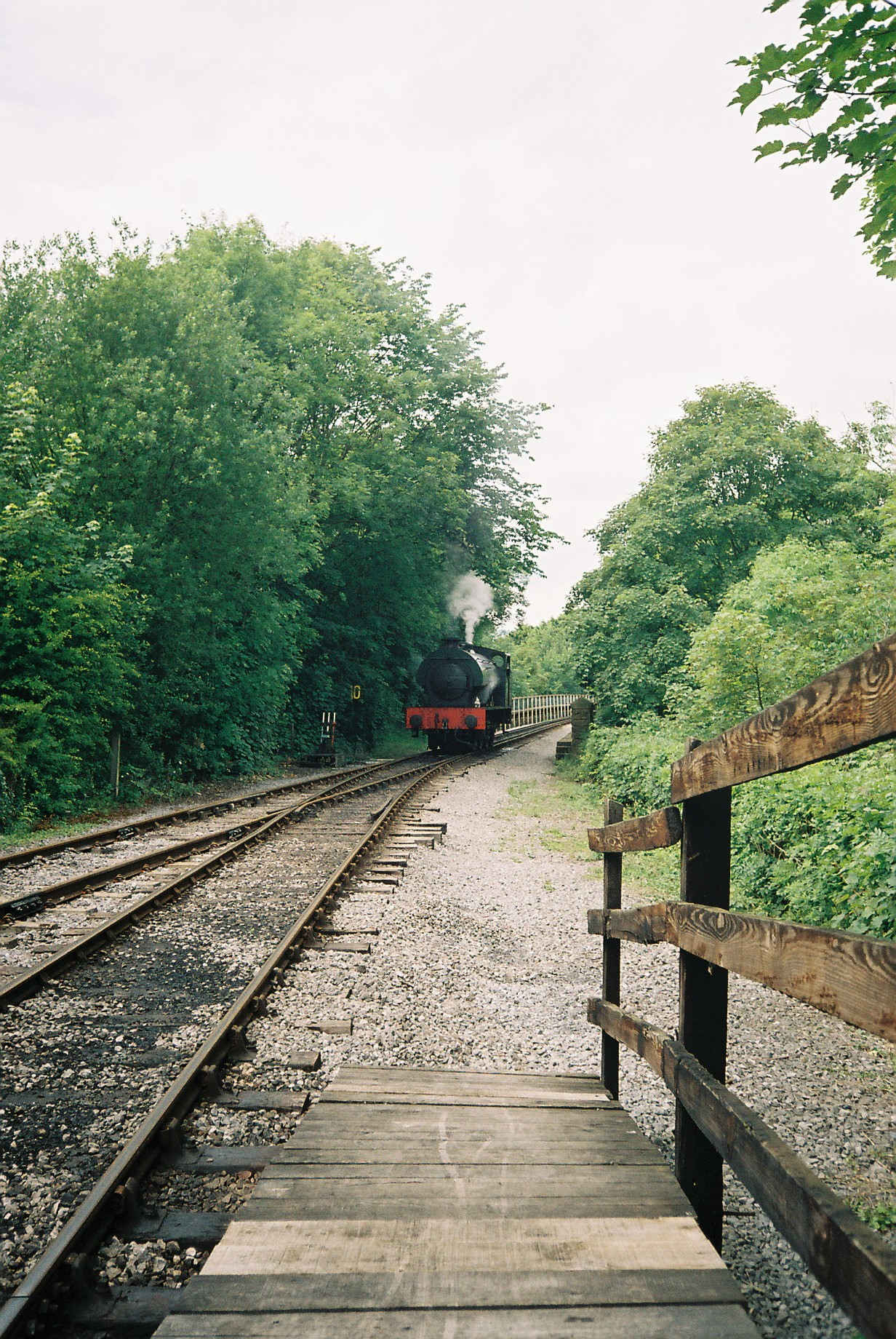 My own photography, Jun 07, Matlock Riverside